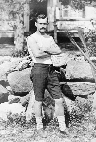 Edward Hanlan, world rowing champion, circa 1878